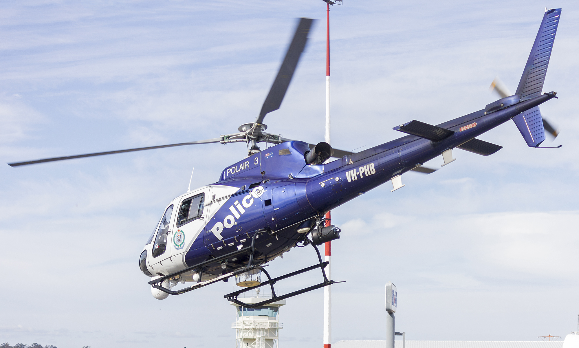 POLAIR 3 of the NSW Police Force Aviation Support Branch (VH-PHB) Eurocopter AS350 B2 at Wagga Wagga Airport.